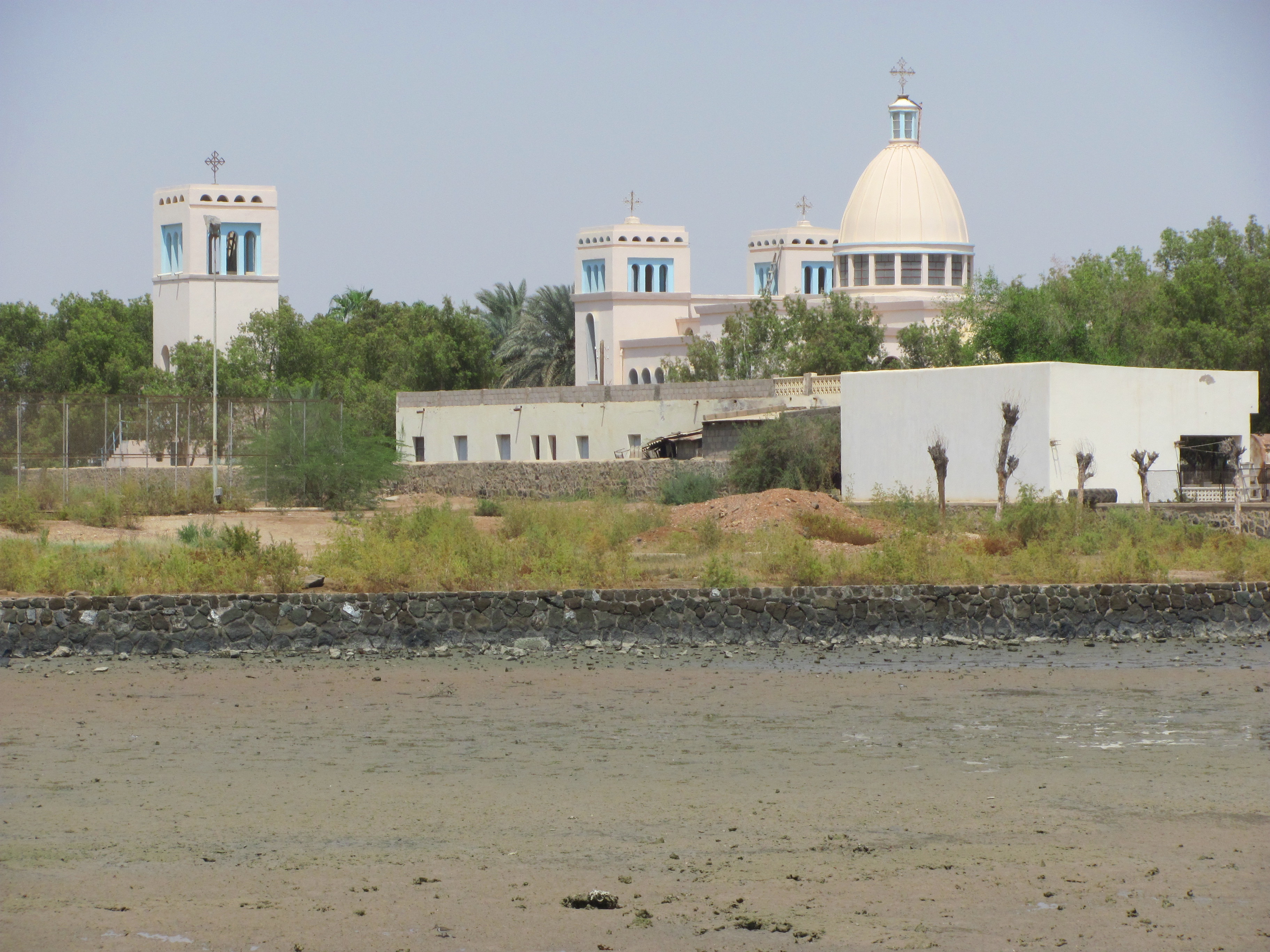 Coptic Cathedral, Massawa, Eritrea